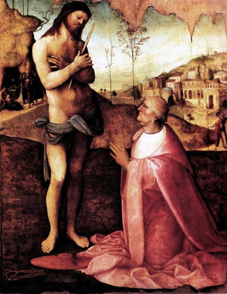 "The Wounded Christ appears to Oliviero Carafa", before 1511, Naples, Capodimonte Museum (Farnese collection)